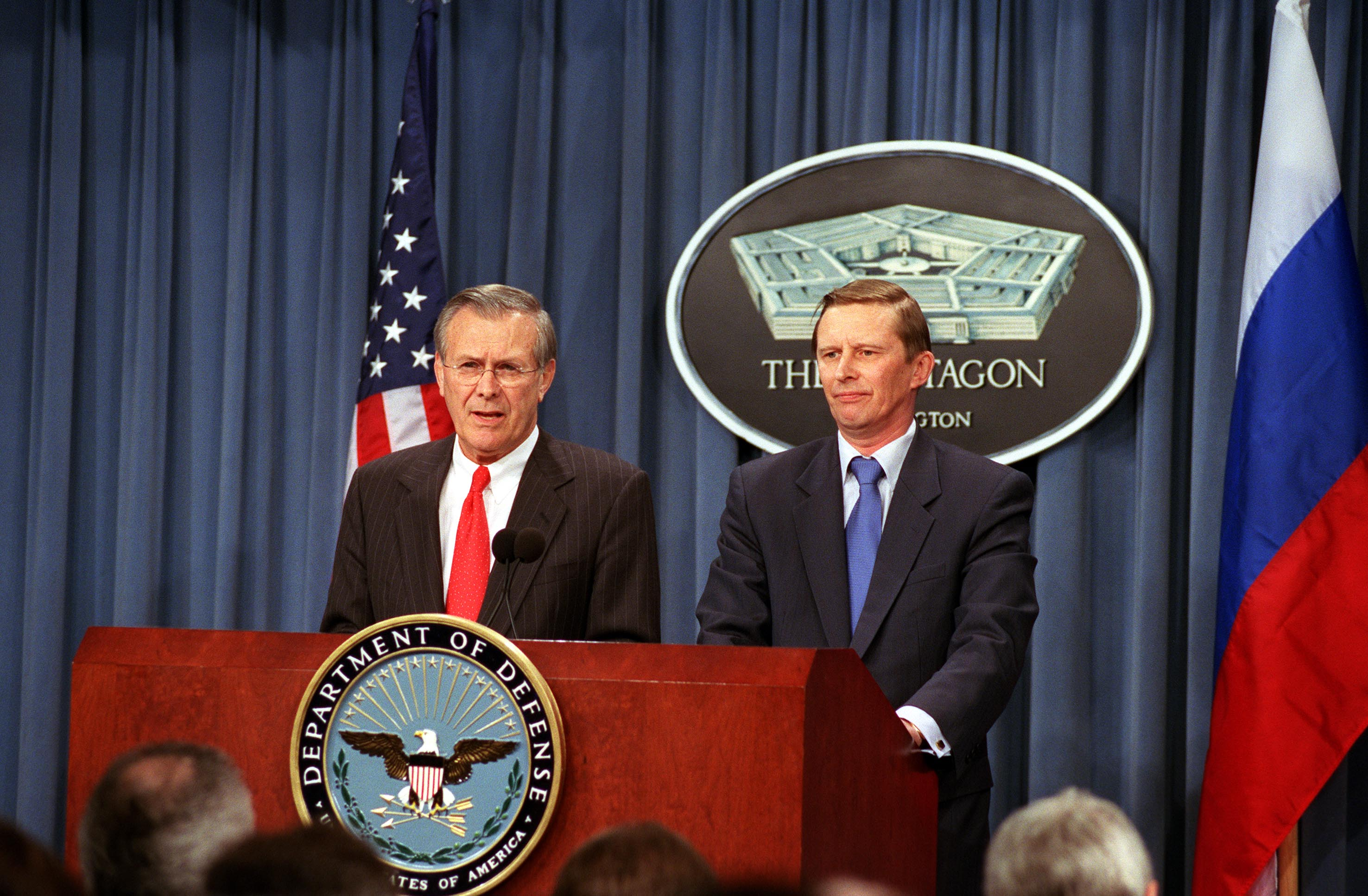 Secretary of Defense Donald H. Rumsfeld (left) delivers the opening remarks during a joint press conference with Russian Minister of Defense Sergey Ivanov in the Pentagon on March 13, 2002. The conference capped two days of meetings for Rumsfeld and Ivanov, both privately and with senior advisors, as they discussed a broad range of security issues of mutual interest.